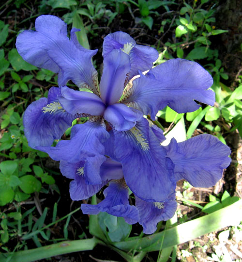 Photographed by Conrad Briscoe Munro in the mountains of Costa Rica.